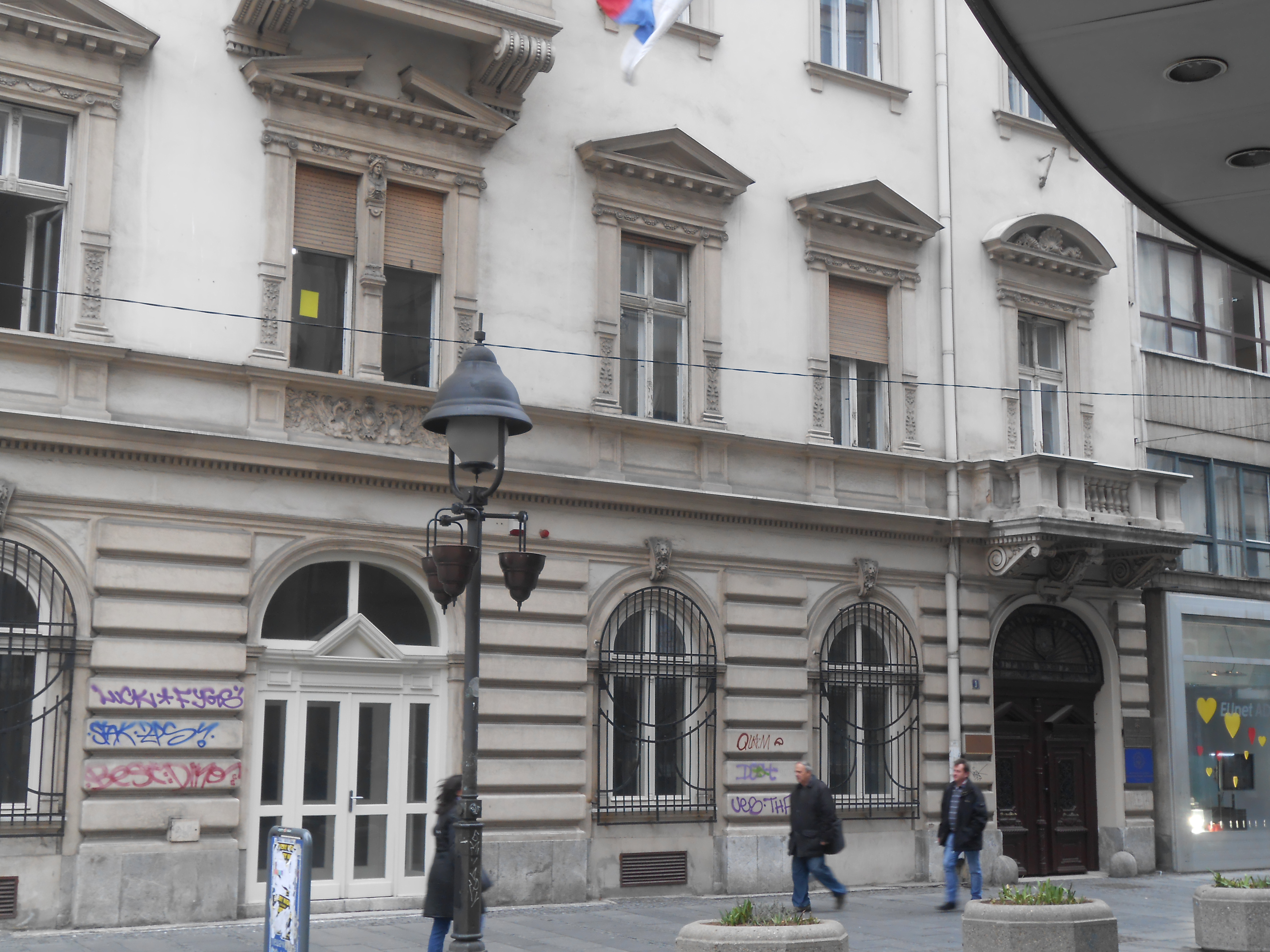 Entrance to the Library from Zmaj Jovina 1. From 1. October 2015. The library is located on the ground floor of the building.